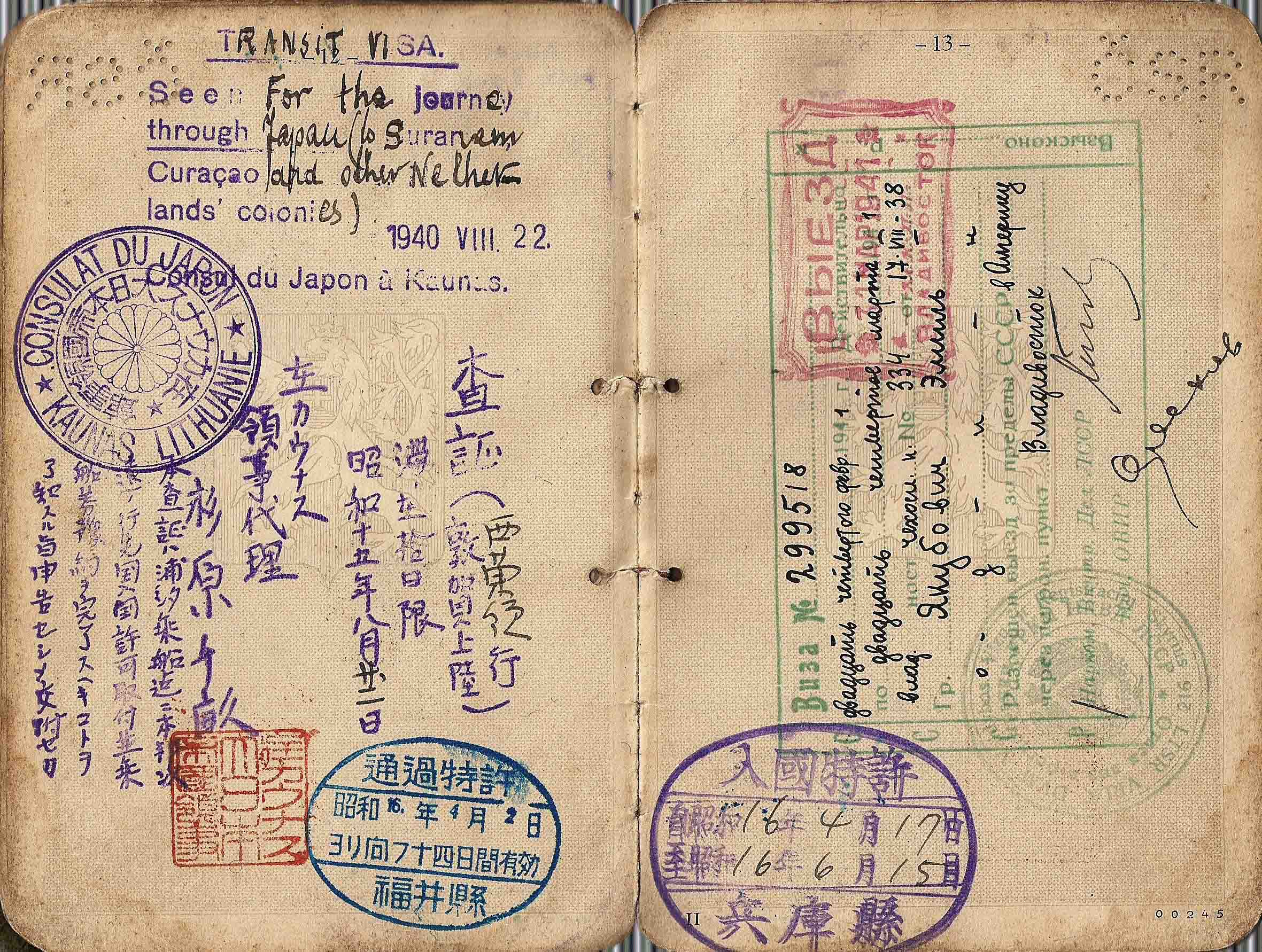 1940 transitvisa issued by consul Chiune Sugihara in Lithuania. The holder was Czech and used his Czechoslovakian passport, issued to him in 1938. He managed to escape to Poland in 1939 and from there to Lithuania. In 1940 he received the visa for a travel via Siberia and Japan to Surinam.